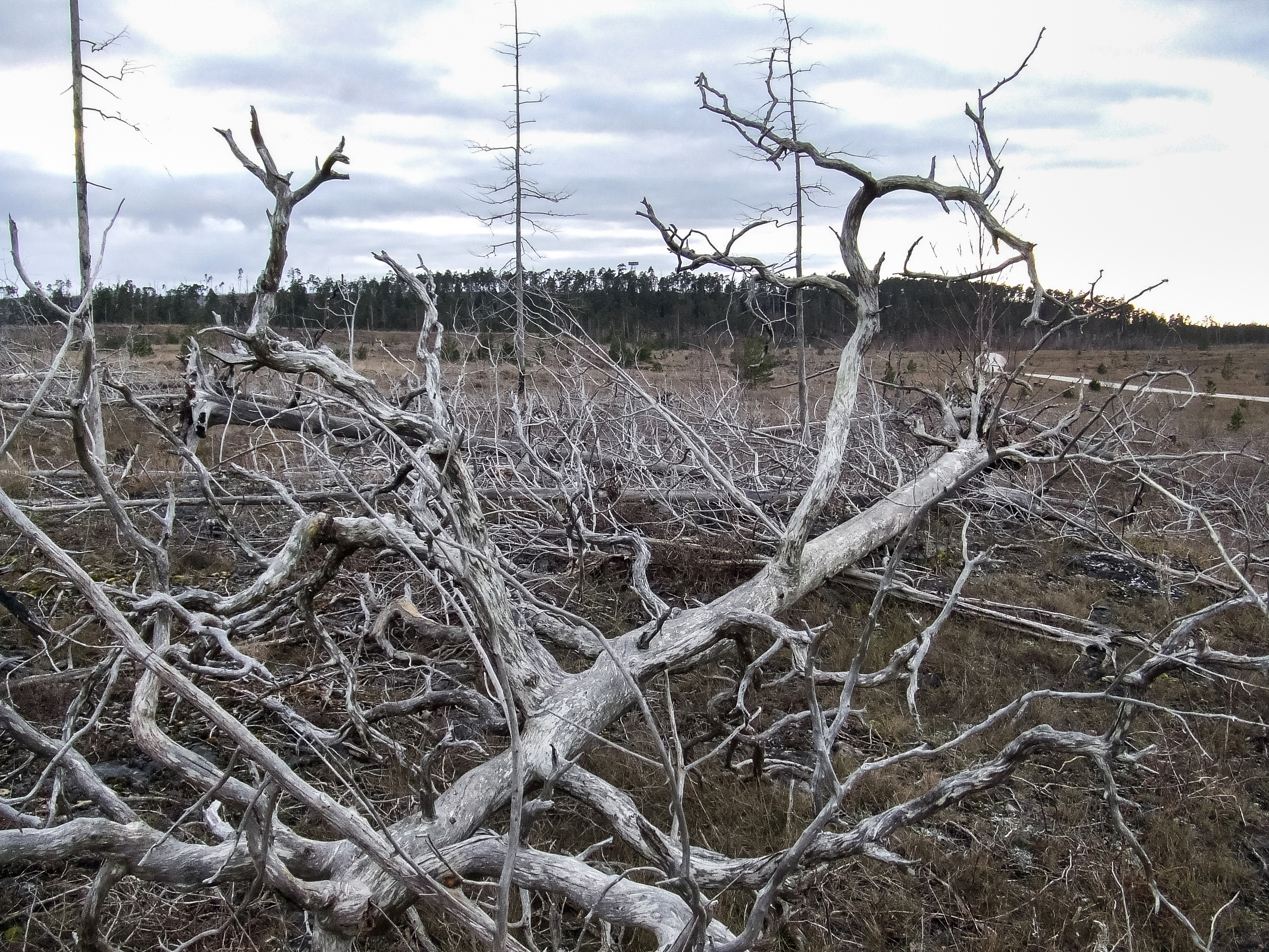 After the fire at Torsburgen Gotland